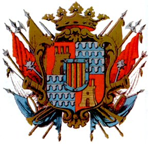 Coat of arms of Monroy family, Pricely house in Sicily